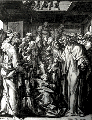 Christ heals a paralytic. De Vos. In the Bowyer Bible in Bolton Museum, England. Print 4266. From “An Illustrated Commentary on the Gospel of Mark” by Phillip Medhurst. Section E. more miraculous healings. Mark 2:1-12, 23-28, 3:1-6, 7:31-37, 8:14-26, 9:14-29.